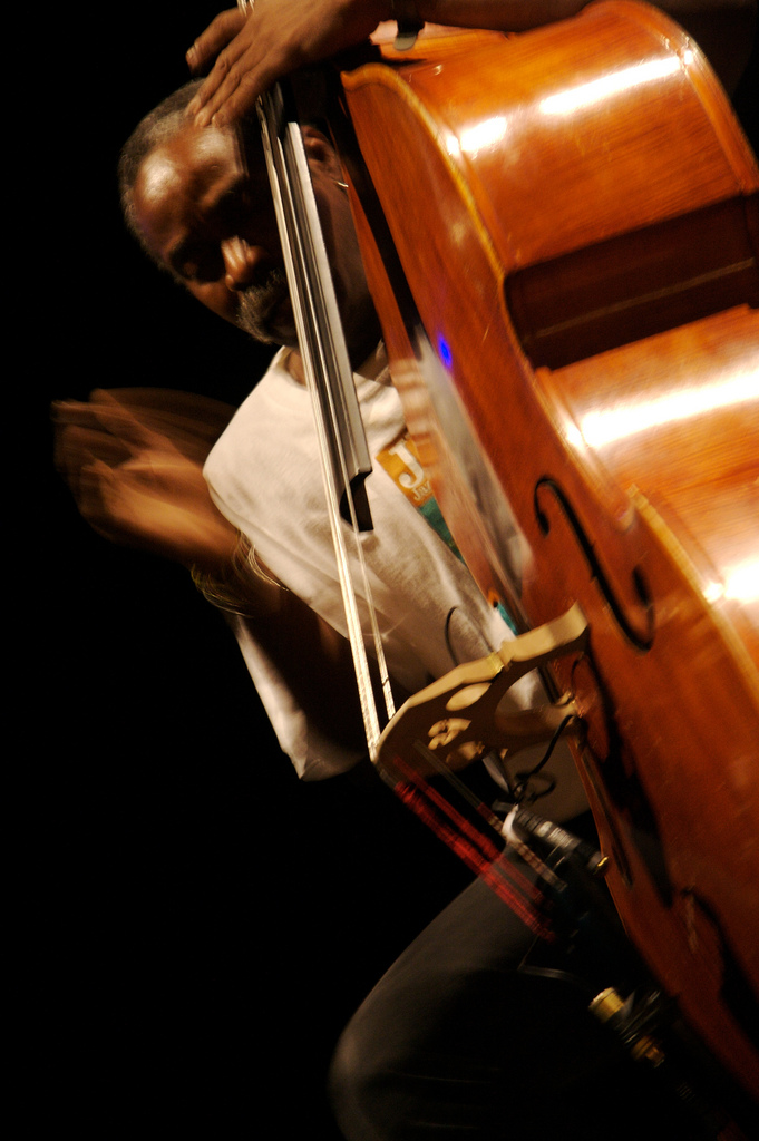 Jazz double-bassists Alex Blake